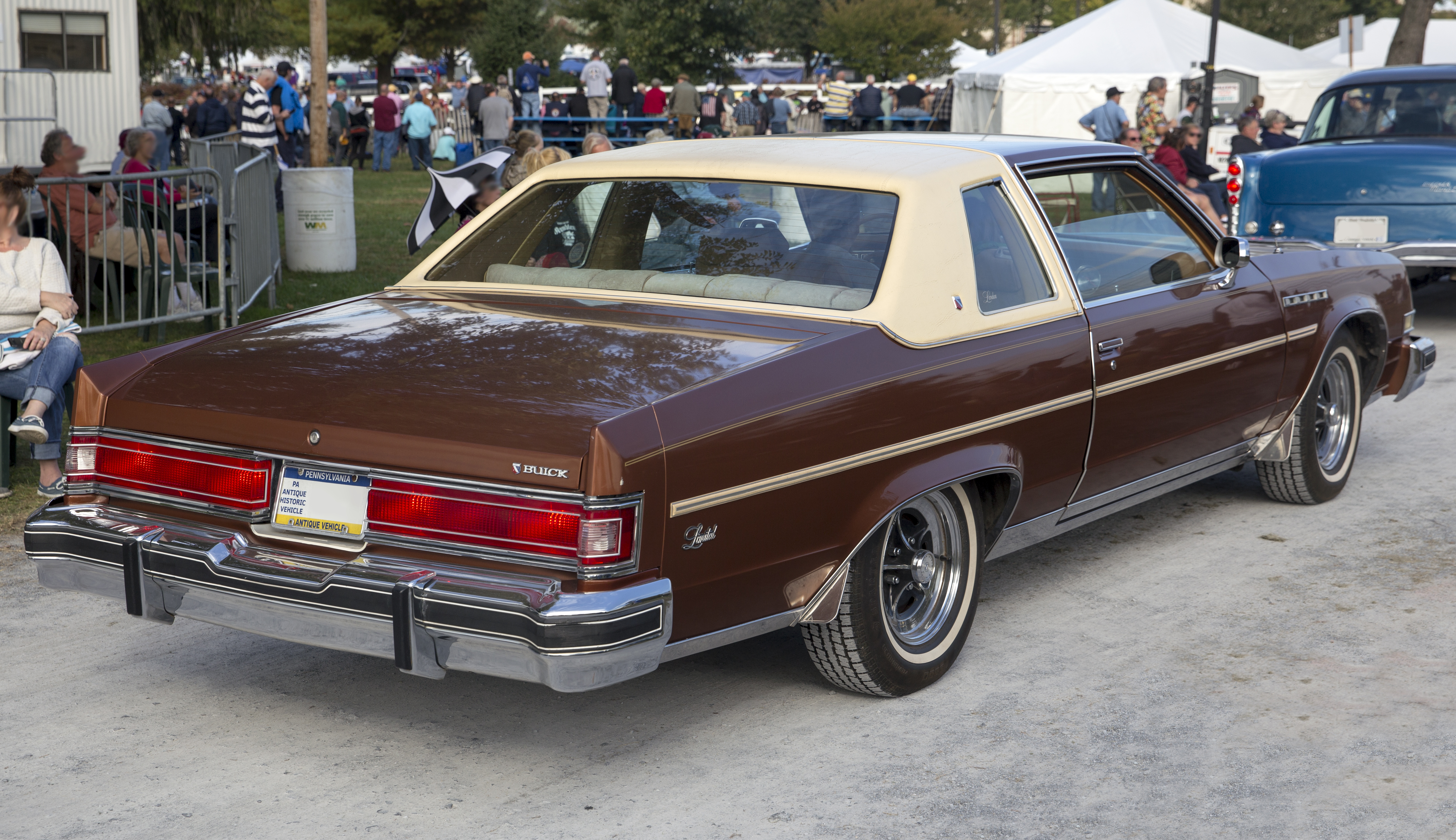 A 1978 Buick Electra Limited Landau Coupé trying to exit the show area at Hershey 2019.